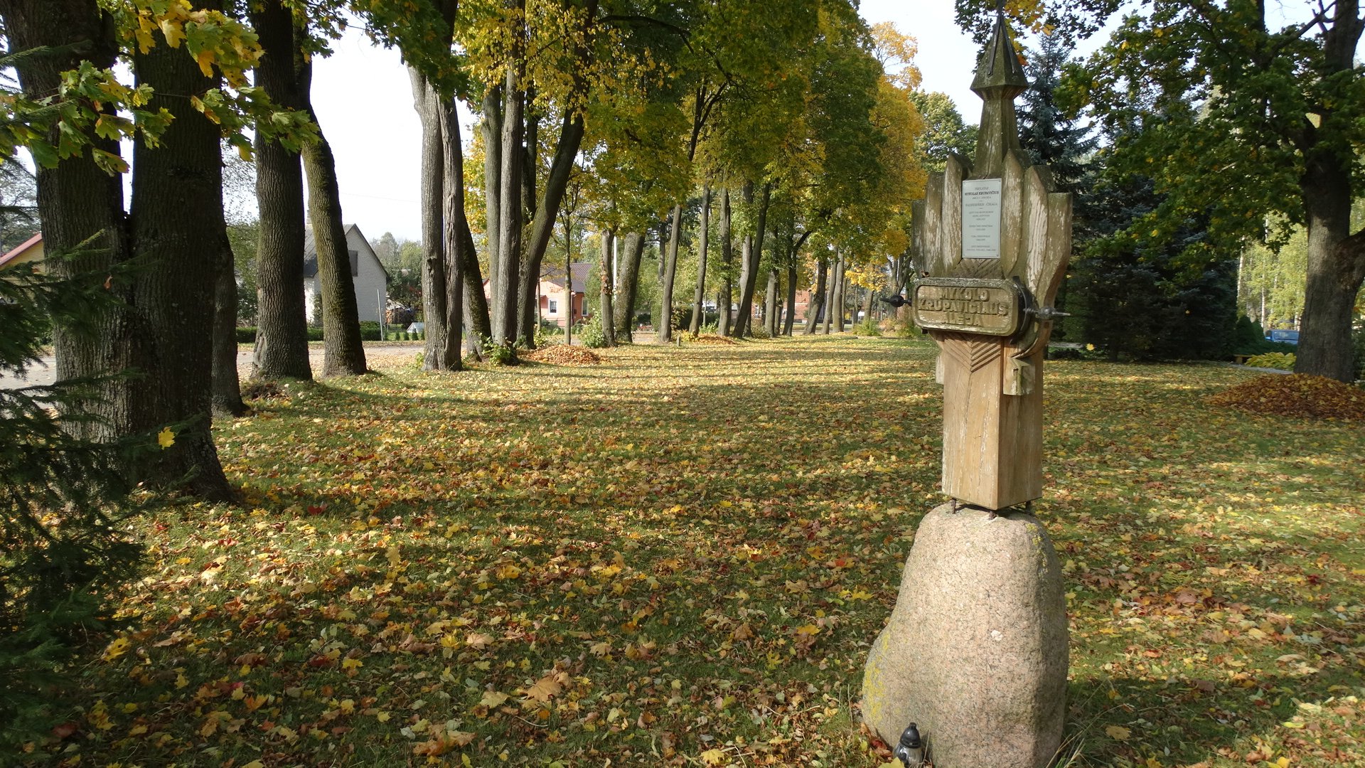 Sign of Krupavičius Alley in Balbieriškis, Prienai District, Lithuania